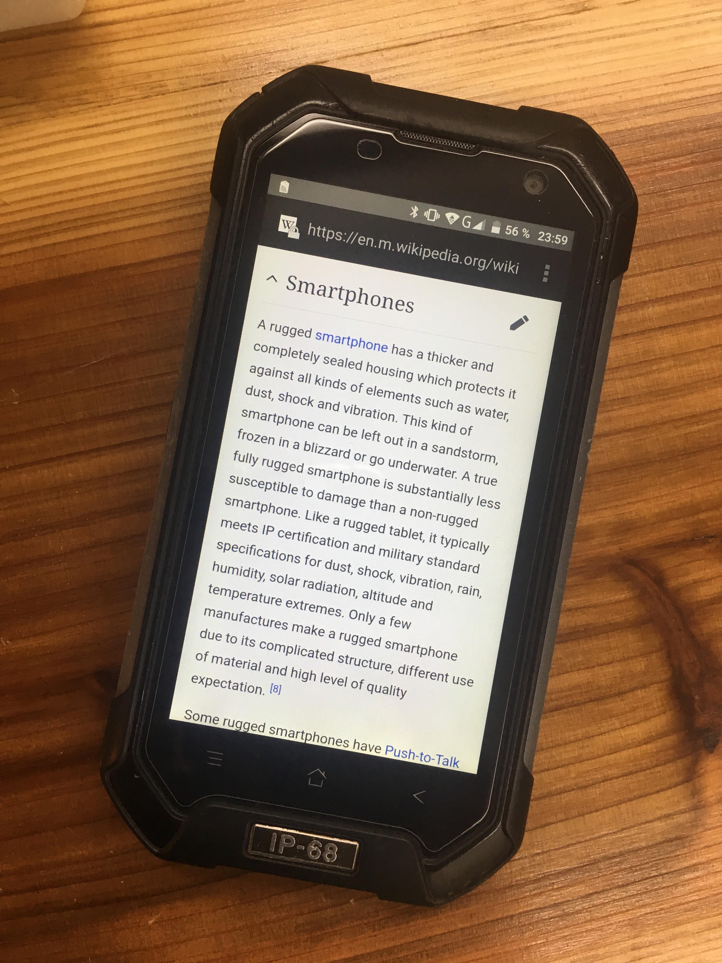 BlackView BV6000 rugged Android smartphone